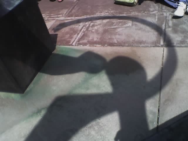 William Wolf